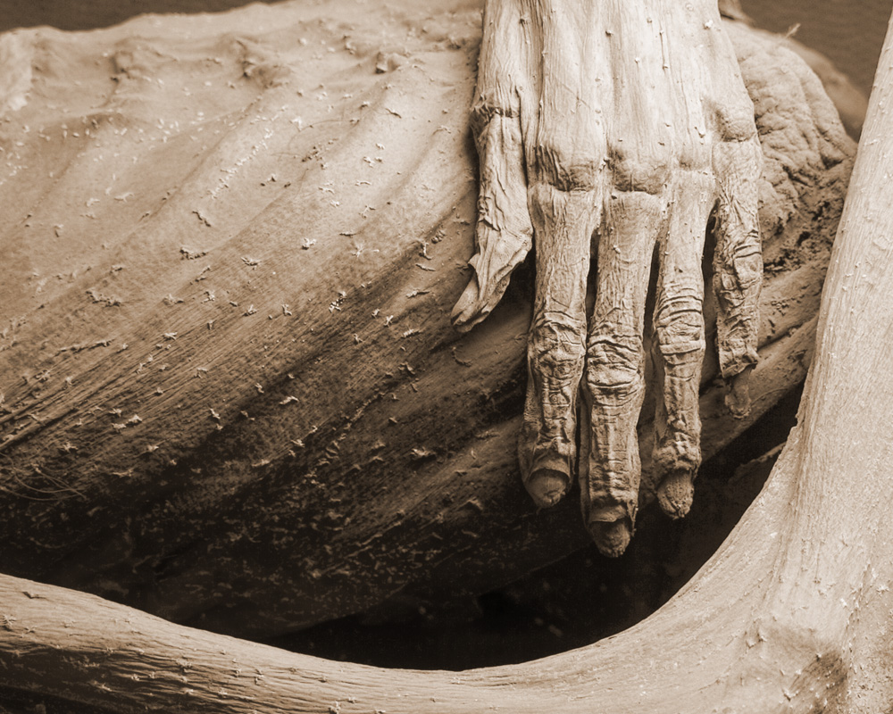 Hand of Guanajuato mummy. Due to weather and soil conditions, bodies tend to dehydrate and mummify in the city of Guanajuato, Mexico. Unclaimed bodies often end up for public exhibit.